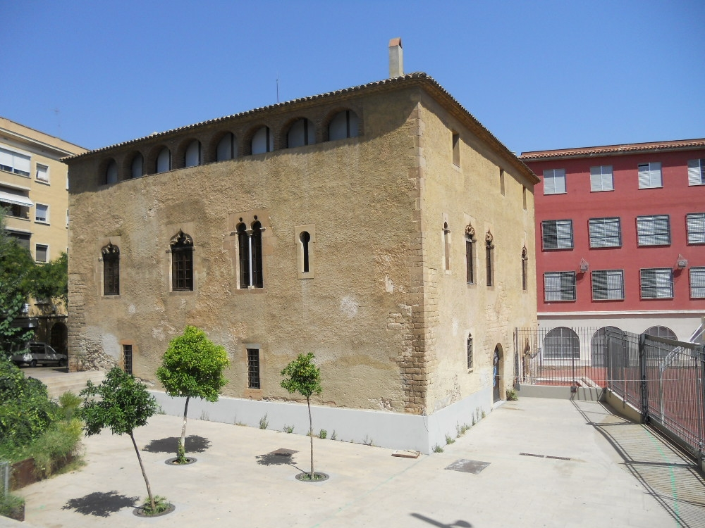 Torre Llobeta, in Barcelona (Catalonia). Ending of the 15th century